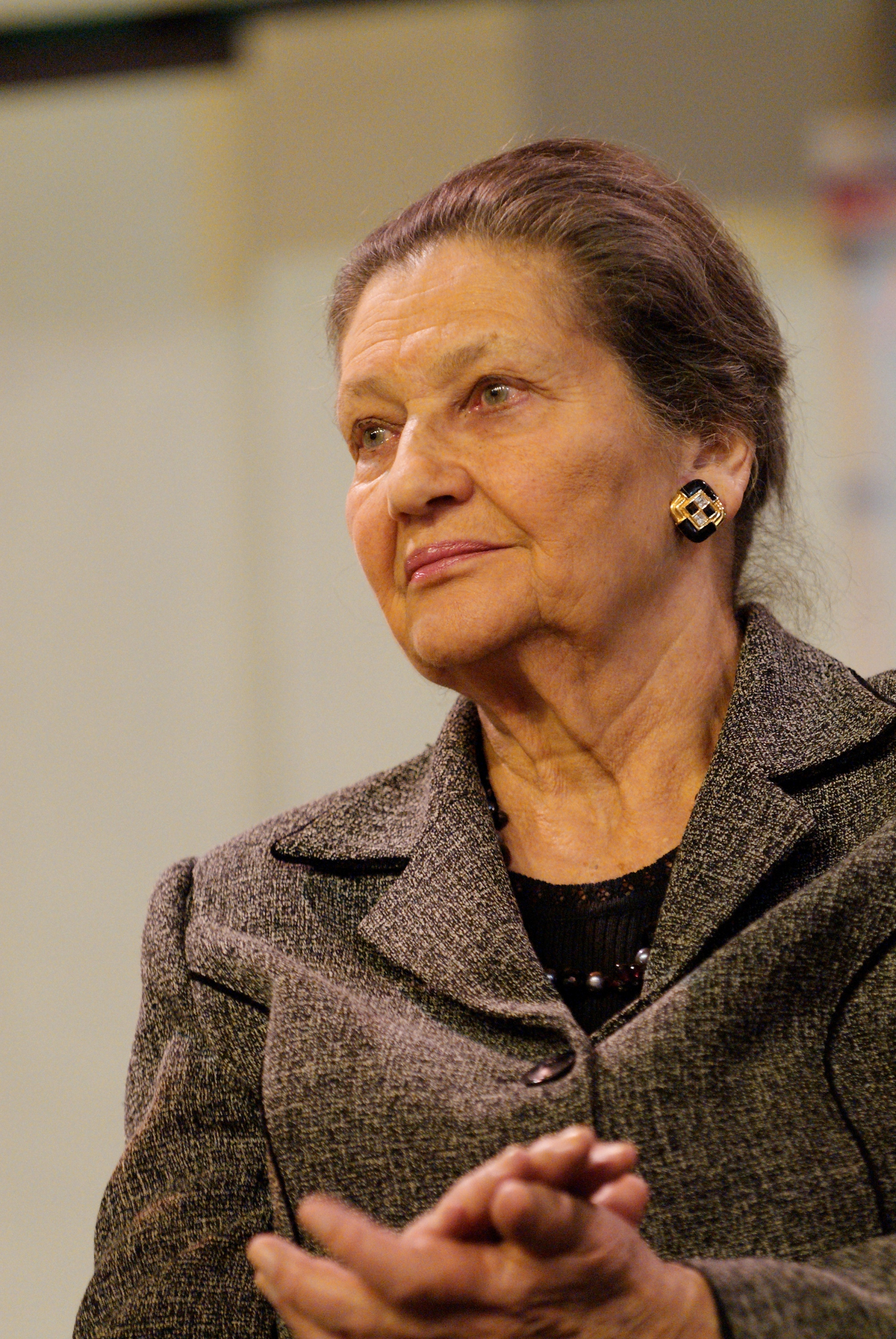 Simone Veil. Political rally organized by the UMP at the Japy Gymnasium on February 27, 2008 on the theme “France and Israel's friendship at the service of peace”, during the campaign for the 2008 town elections.